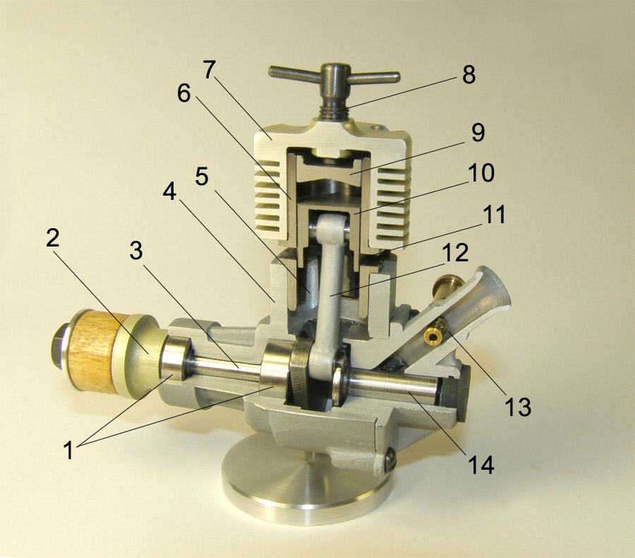 Carbureted compression ignition model engine